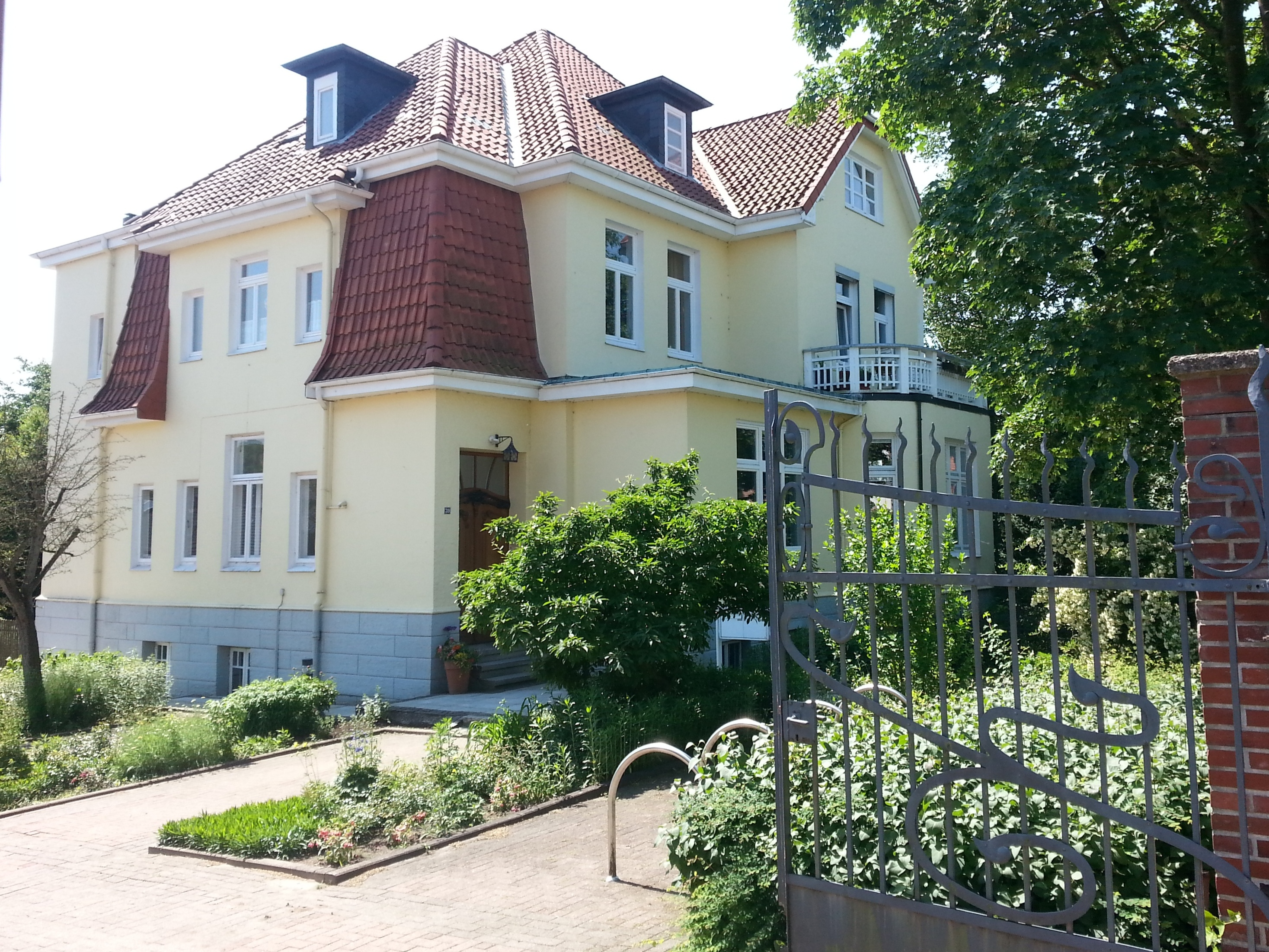 The Landessuperintendentur, seat of the land superintendent (Landessuperintendent) the spiritual head of the Lutheran Stade Diocese (Sprengel Stade) of the Church of Hanover, in Stade, Lower Saxony, Germany.